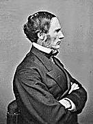 Jehu Baker, US Representative from Illinois. He was in Congress for one term as a Republican and one term as a Democrat.